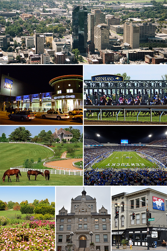 This is a collage of Lexington, utilizing the following files: File:LexingtonDowntown.JPG, File:RuppArena.JPG, File:Keeneland gate.jpg, File:Lexington Kentucky - Donamire Farm (3570956257) (2).jpg, File:Commonwealth Stadium of Kentucky - Kentucky Wildcats v.s. Georgia Bulldogs - SEC football, October 2012 (2012-10-20 by Navin75).jpg, File:University of Kentucky Arboretum - DSC09377.JPG, File:Old Fayette County Courthouse (1).jpg, and File:Sunny Side Saloon.jpg.